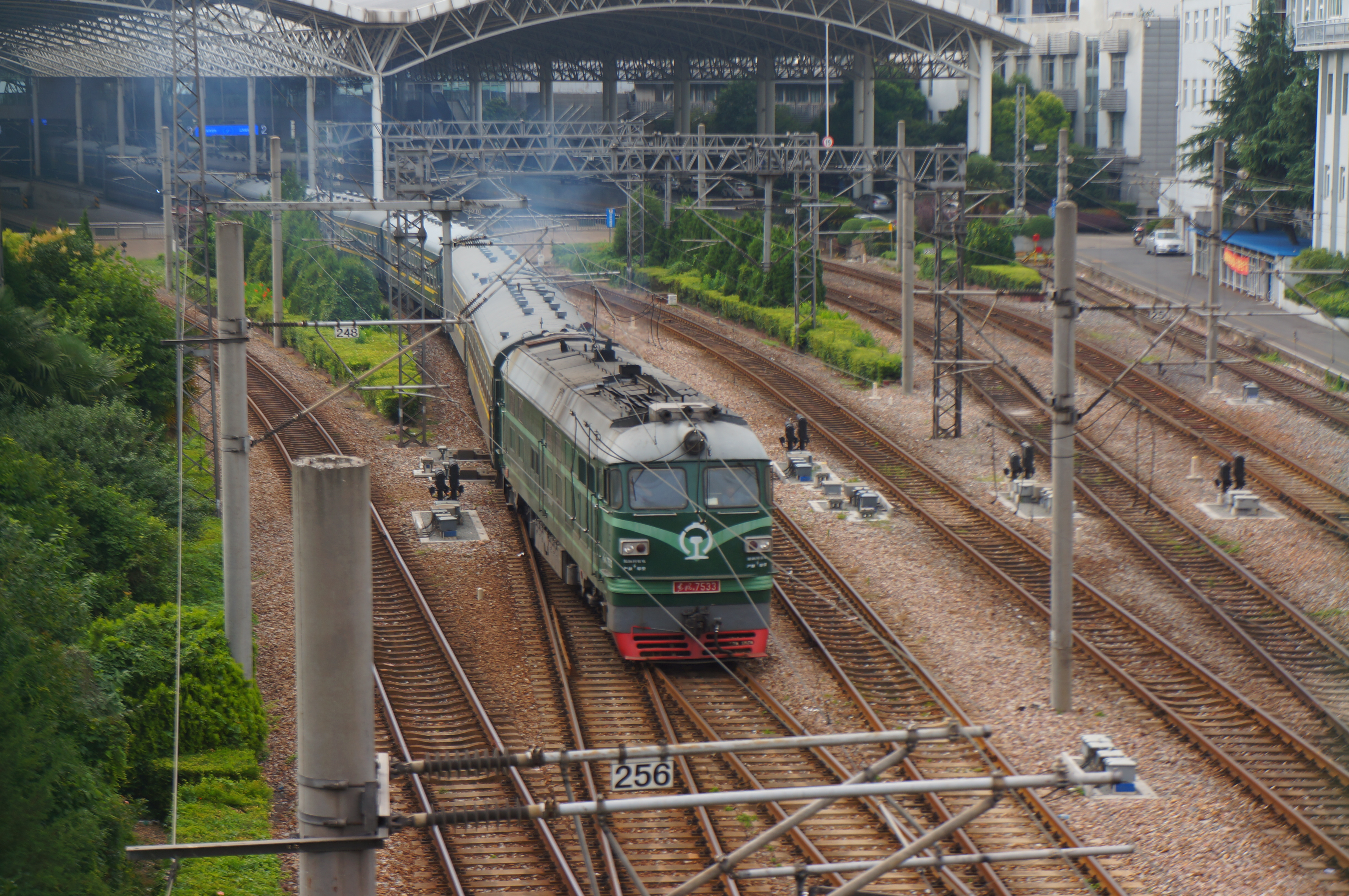 201806 DF4B-7533 hauls 8XXX to Fengbang at Shanghai Station